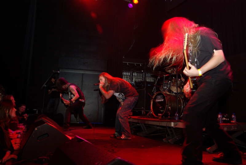 Regurgitate live at Bloodshed Fest 2007.